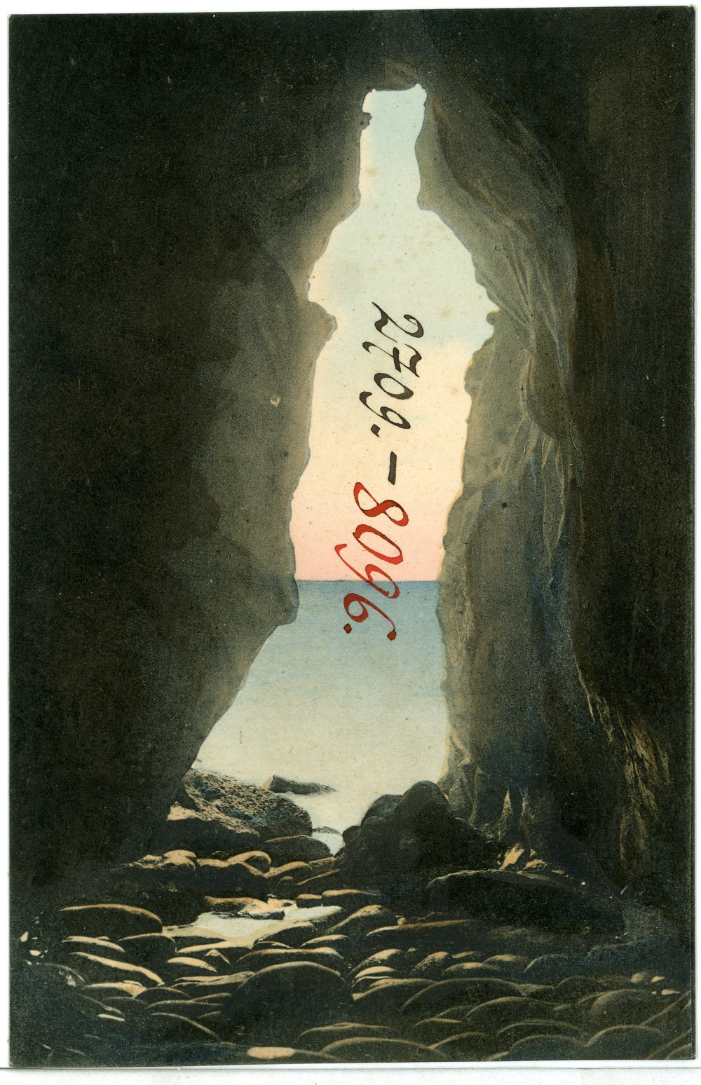 This postcard is from publisher Brück & Sohn in Meißen ( This postcard has a unique number 08096 and is available in a higher resolution at the publisher. This images was uploaded in a cooperation project between Wikipedians and the publisher.